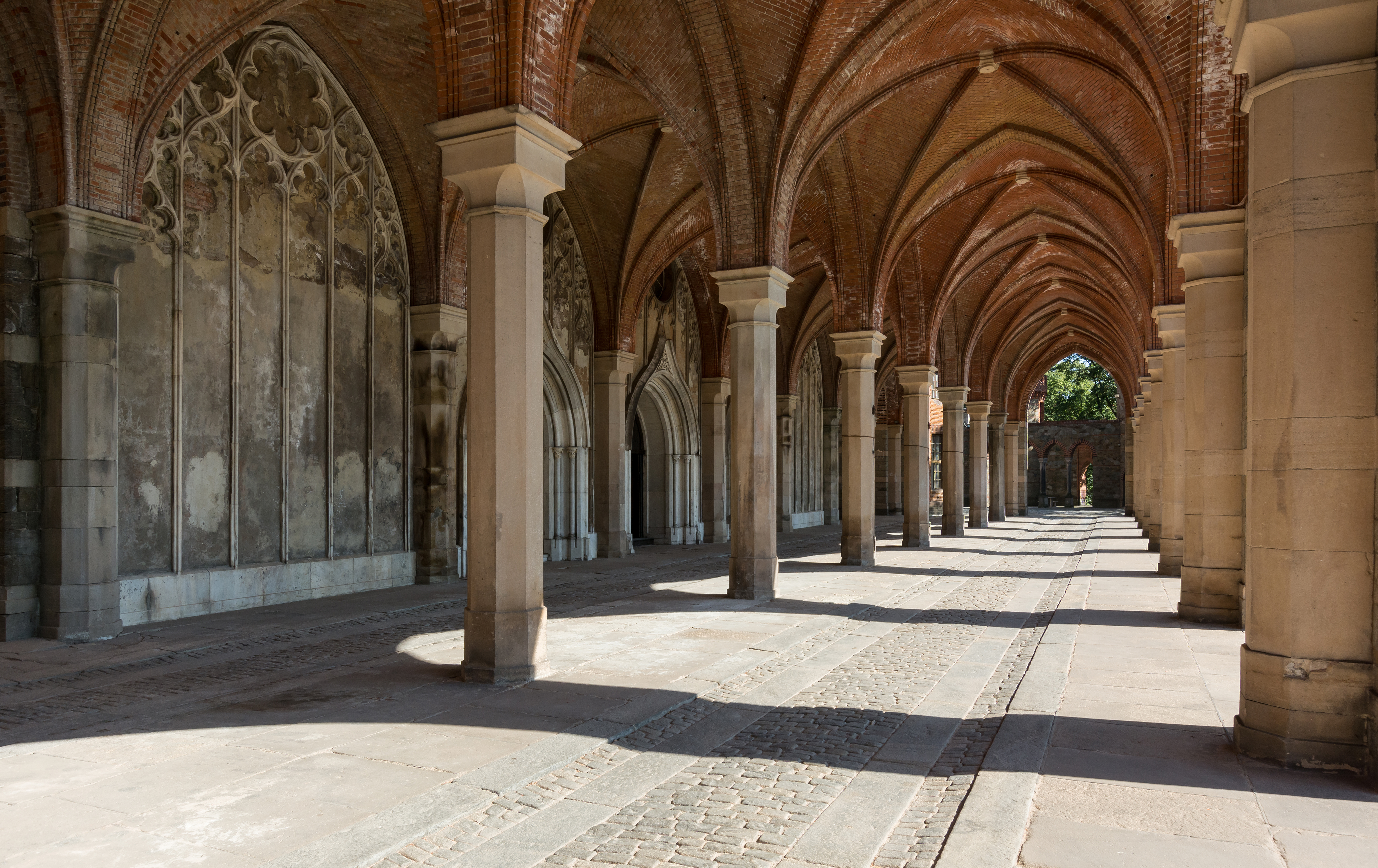 Kamieniec Ząbkowicki Castle